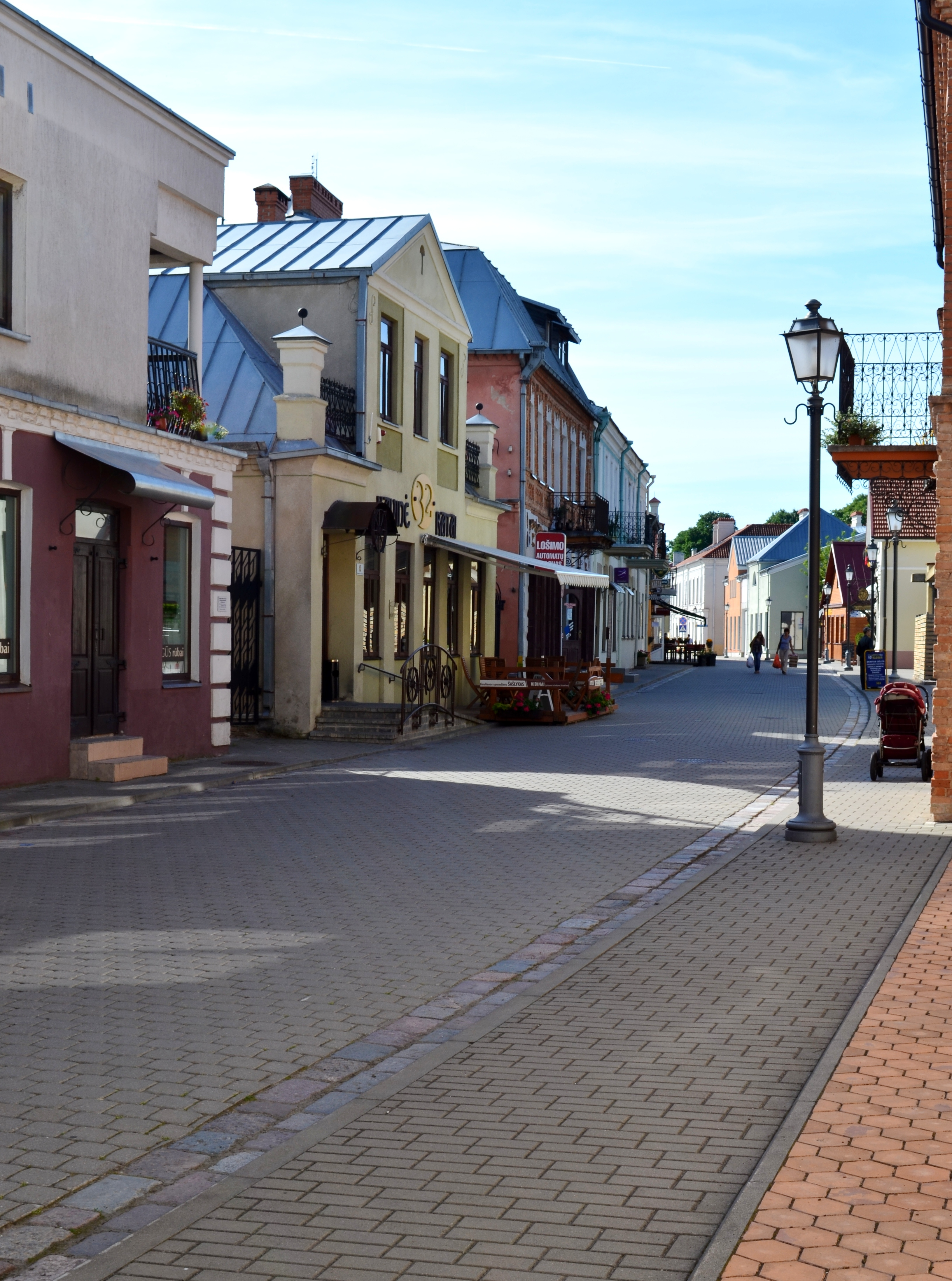 Didžioji street in Kėdainiai old town. Lithuania